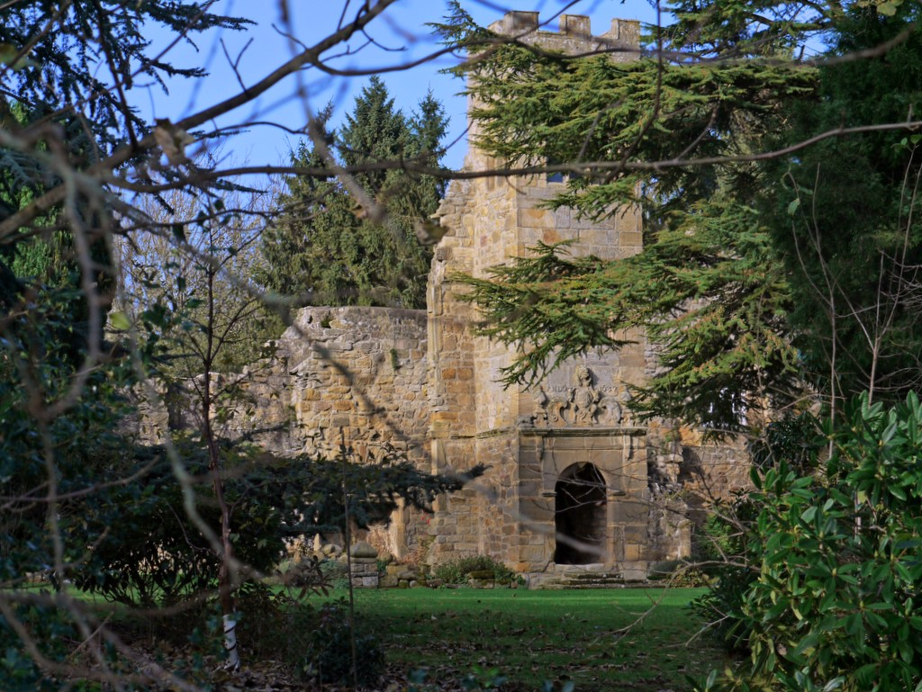 Ruins of Old Manor House, Mitford